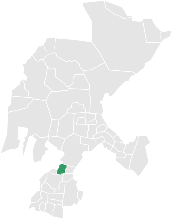 Map of the Municipality of El Plateado de Joaquín Amaro in Zacatecas, México.